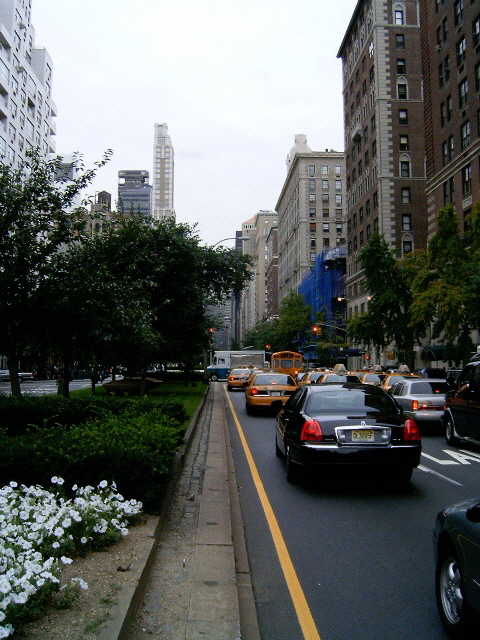 I took this photo of Park Avenue in New York City in Aug 2004